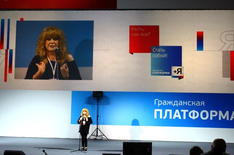 2 Congress of the Party of Civic Platform (Russia). Address by a member of the Central Council of the party, honoured artist of USSR and Russia Alla Pugacheva